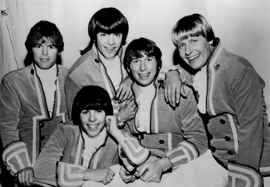 Photo of Paul Revere and the Raiders. Standing from left: Mike "Smitty" Smith, Mark Lindsay, Paul Revere. Seated, from left: Phil "Fang" Volk", Jim "Harpo" Valley.